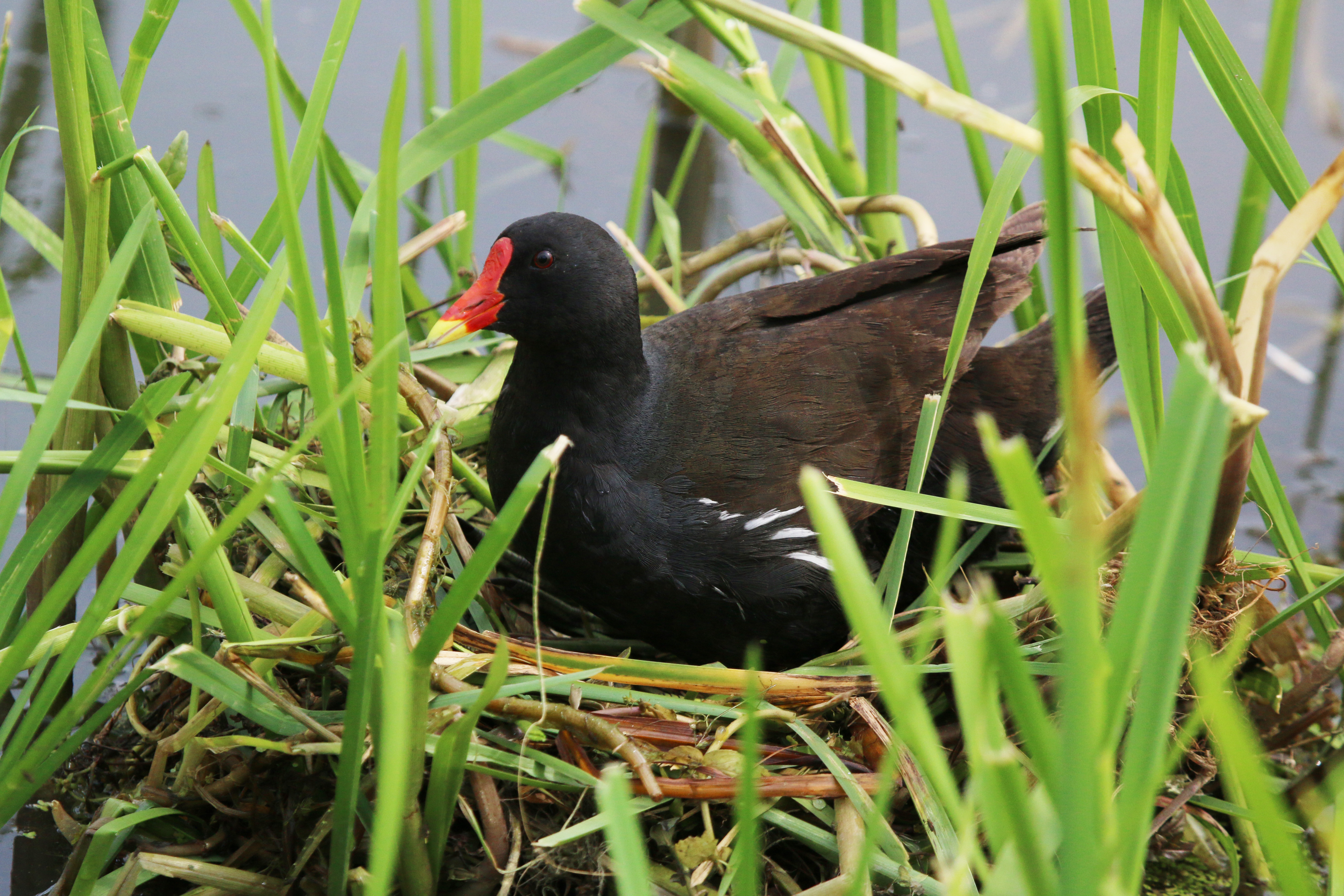 Common Moorhen (Gallinula chloropus) on nest, Wolvercote, Oxfordshire